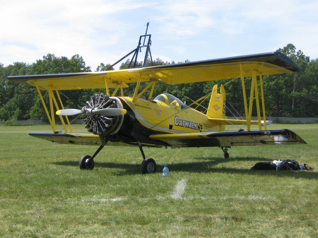 Grumman G-164 Ag-Cat adapted to airshows. Picture taken on an airshow in Góraszka